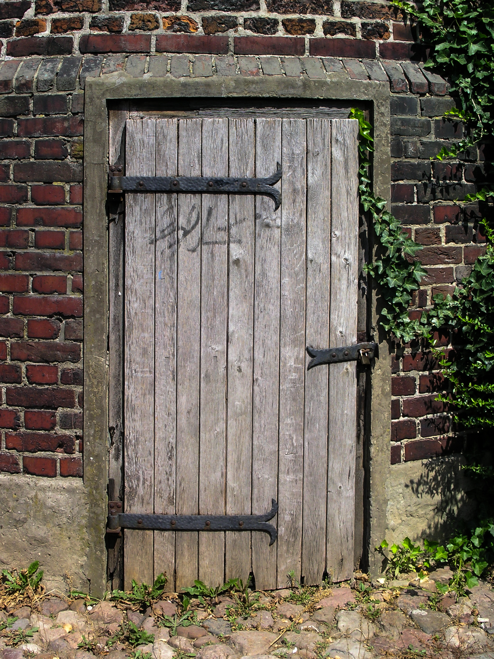 Lorenkenturm, Dülmen, North Rhine-Westphalia, Germany This image shows a heritage building in Germany, located in the North Rhine-Westphalian city Dülmen (no. 2).